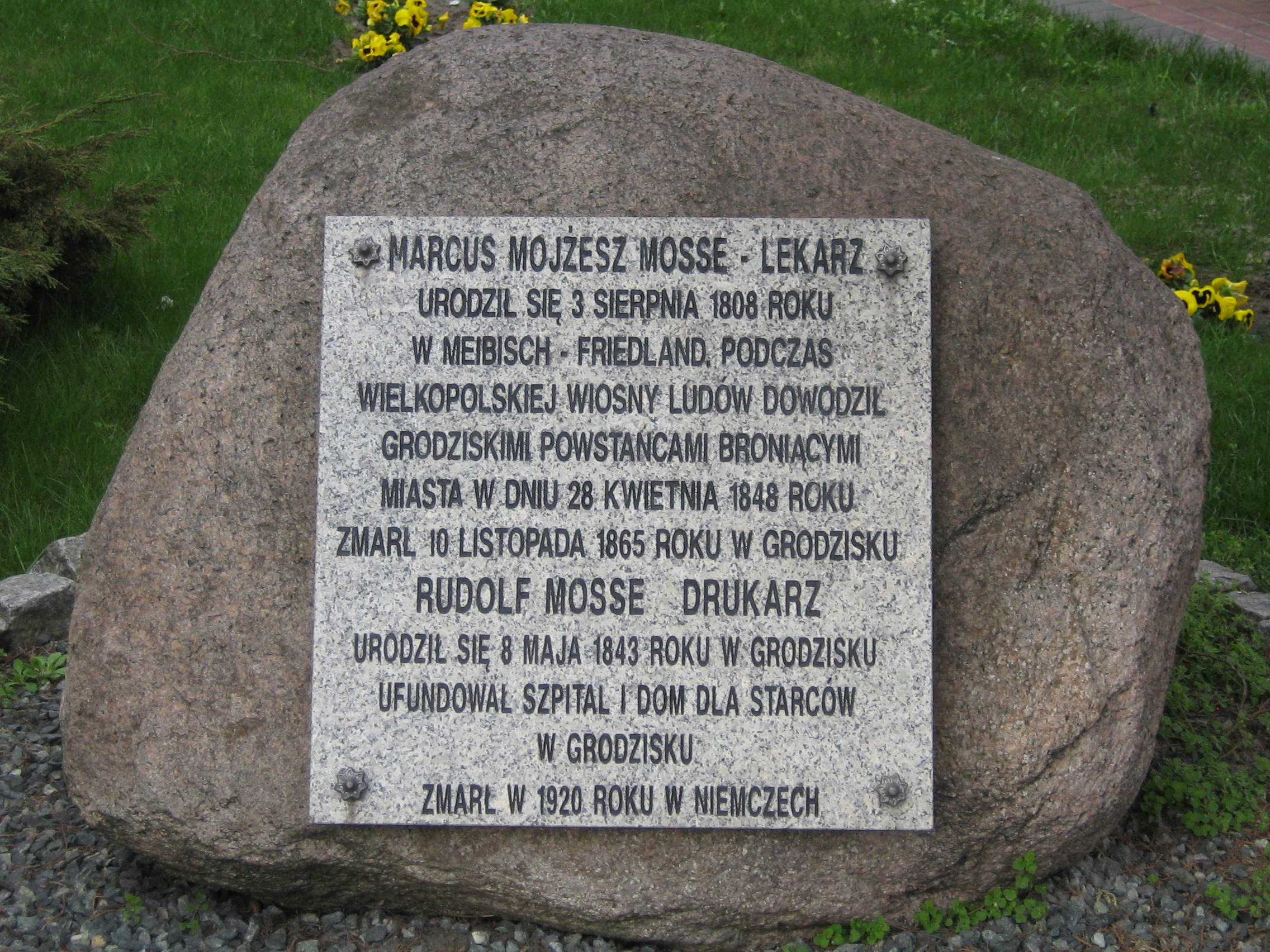 Plaque of Marcus and Rudolf Mosse in Grodzisk Wlkp. (Poland)